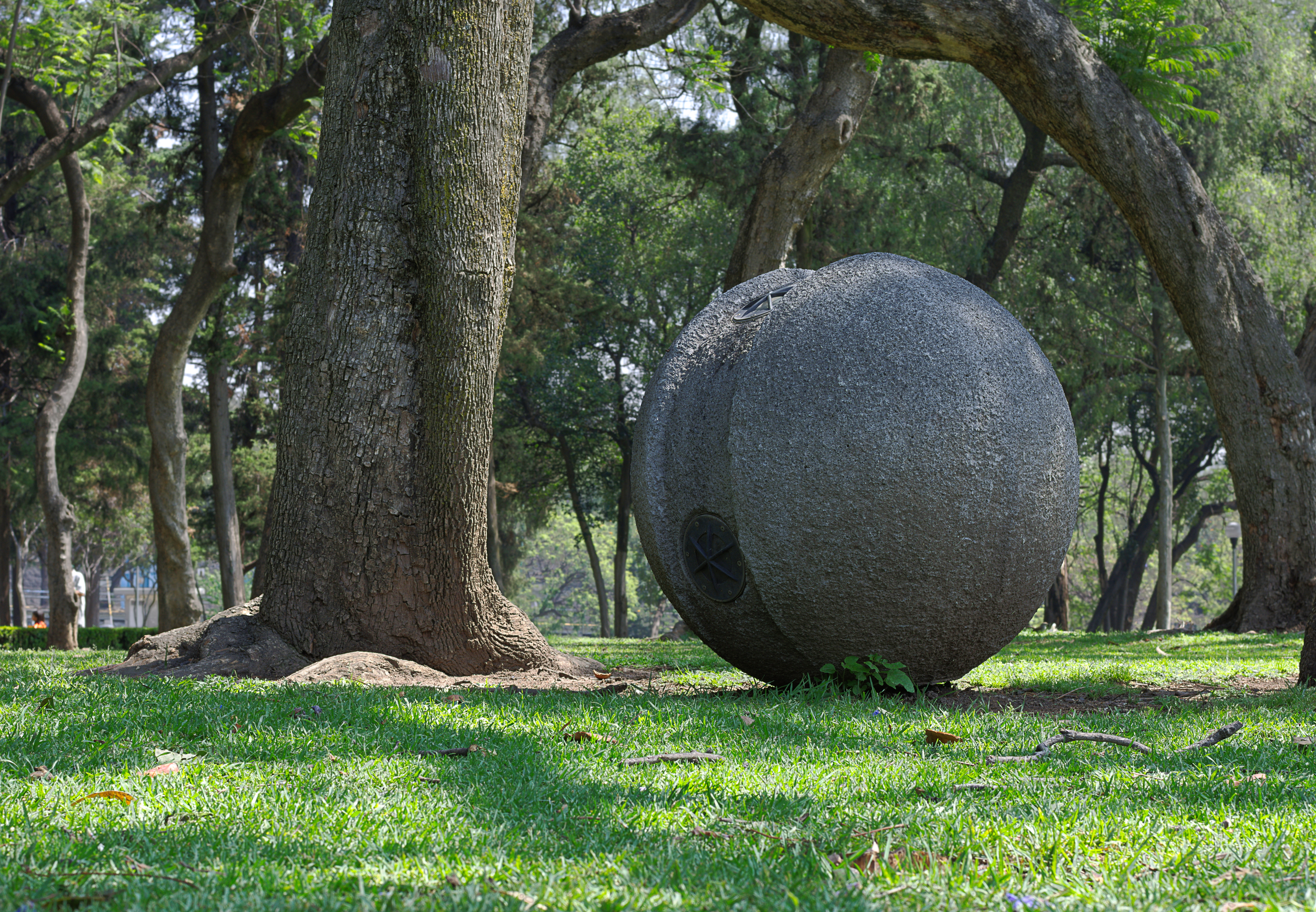 Garden decoration on University City, UNAM, Mexico City.